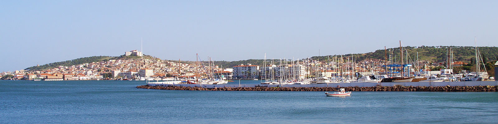 Ayvalik panorama, Turkey Панорама на Айвалък